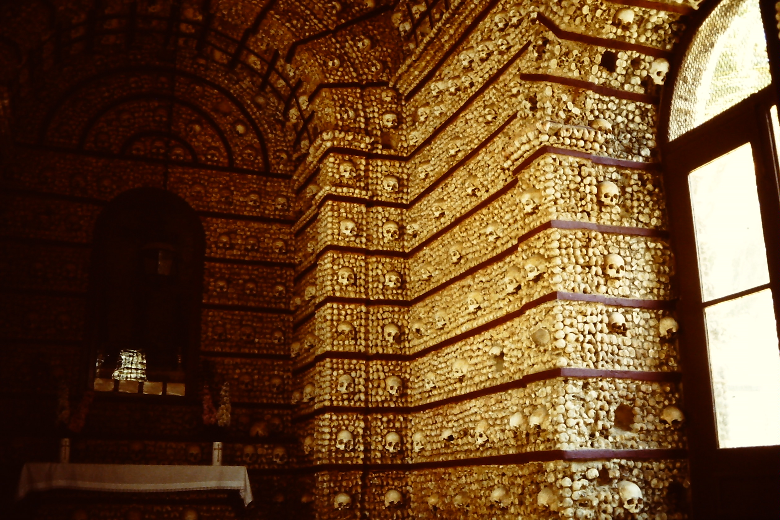 Capela dos Osos (Faro)